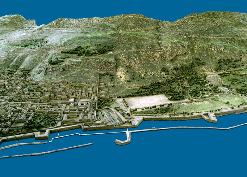 The South Front defences can be seen in the lower centre of this photograph. The flat area was known as The Grand Parade Ground with Alameda Gardens to the right. The stepped structure of King Charles V wall can be seen to the right of centre at the top. This wall still exists today. Views from a model of Gibraltar in Gibraltar Museum. The model is 8 meter's long at a scale of 1/600 or 1inch = 50ft which represents the almost 3 mile length of Gibraltar It was completed in 1865 from a survey by Lient. Charles Waren R.E. under the direction of Major General Frome R.E. it was coloured after nature by Captain B.A. Branfill of 86 Regiment 1868. These pictures are from and are generously given by the site and its auithor Jim Crone